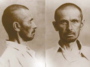 Yevgeny Polivanov's mugshot.